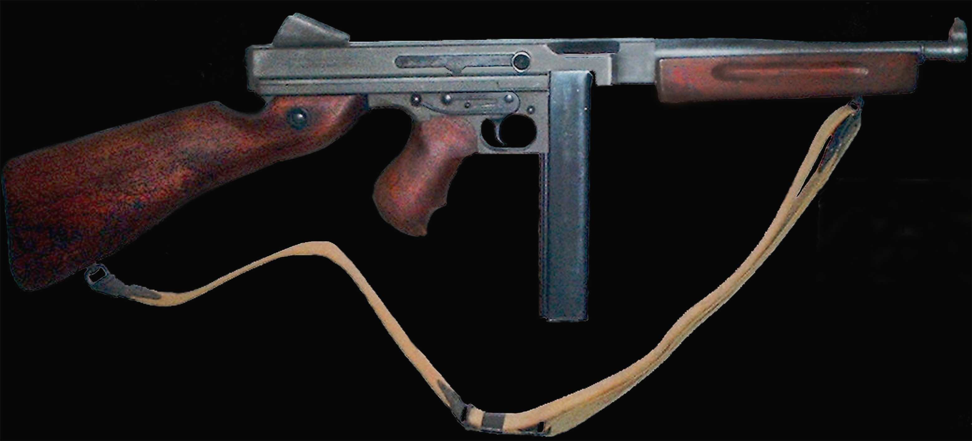 Thompson Sub-machine Gun 1928A1